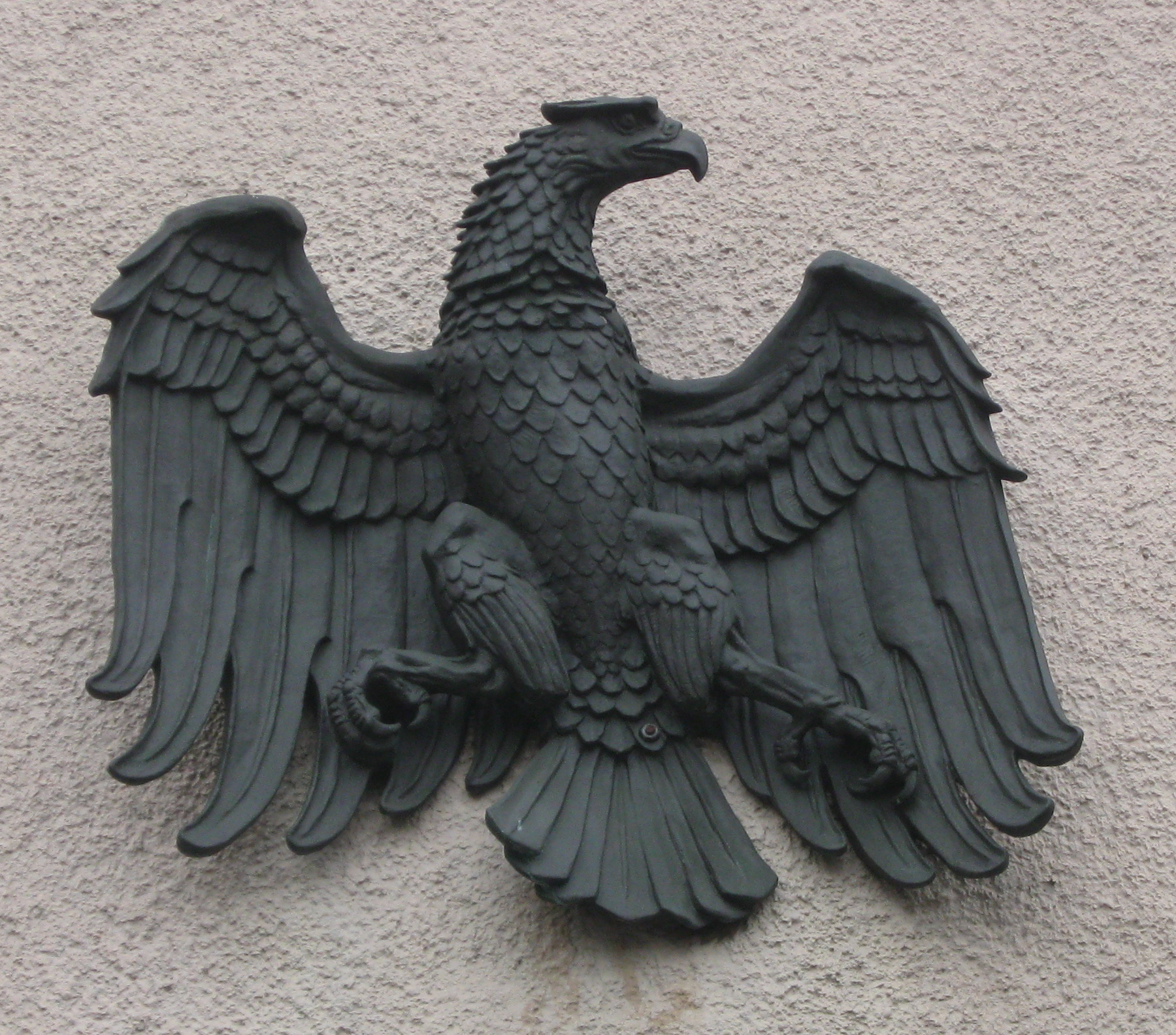 Wall ornament of former Prussian police office in Buer (Westfalia)